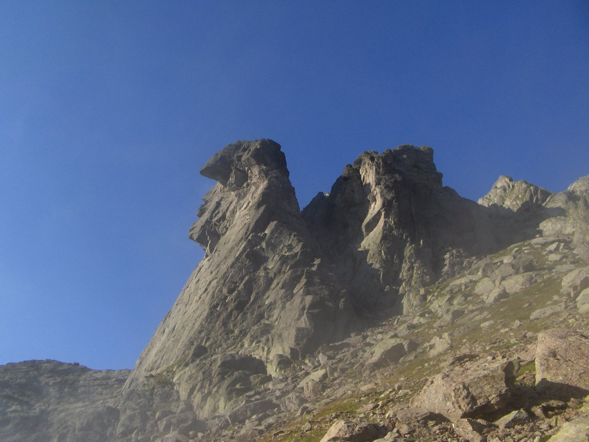 Pizzo Tre Signori - Ornica (BG), Lombardy, Italy